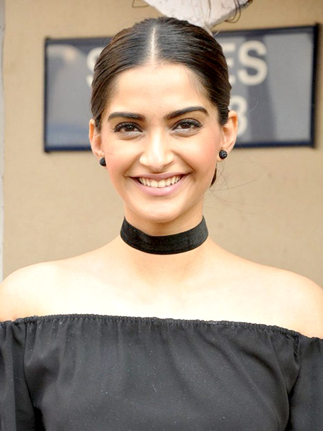 during ‘Neerja’ promotions